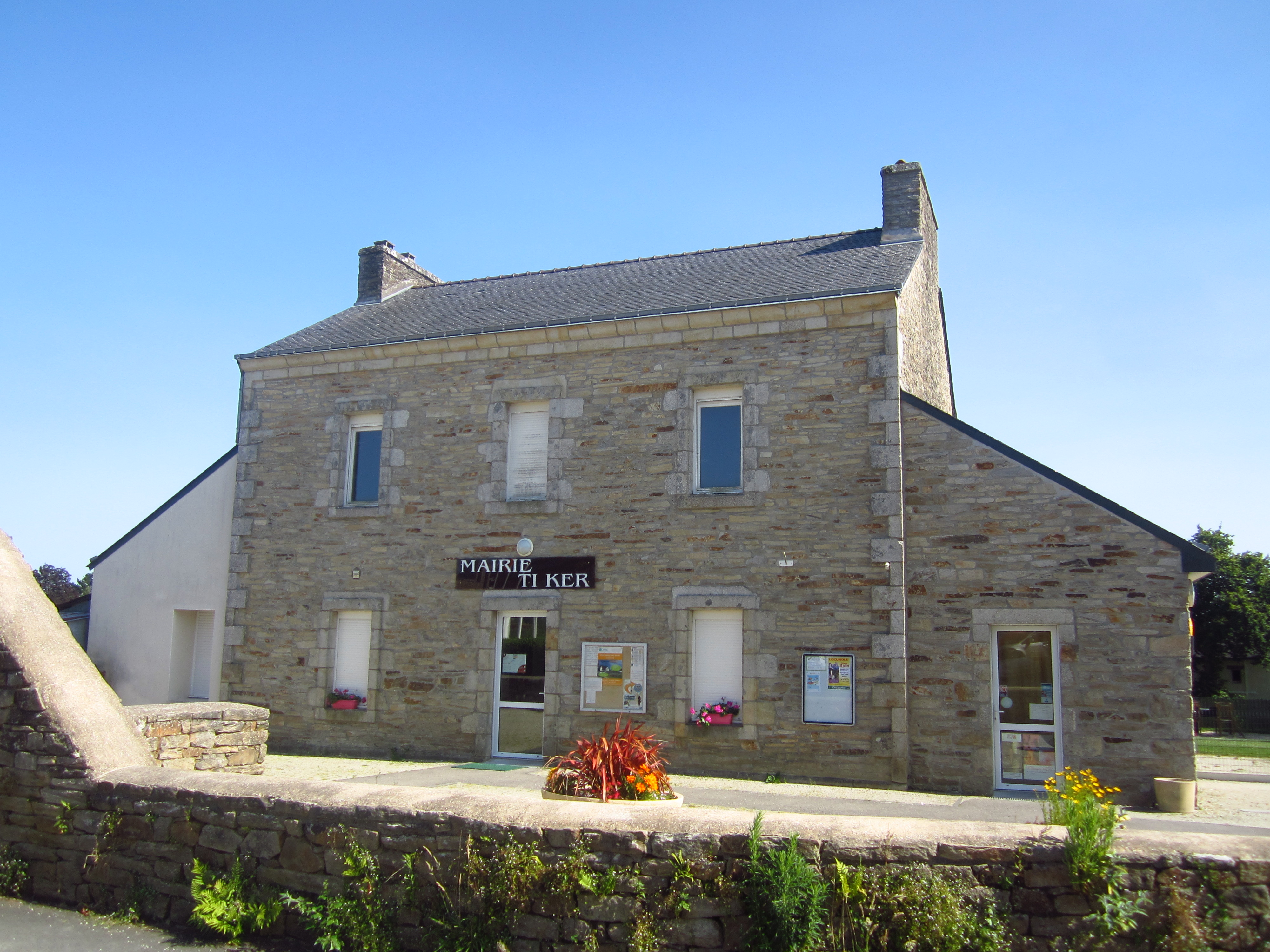 Town hall of Locunolé, Finistère